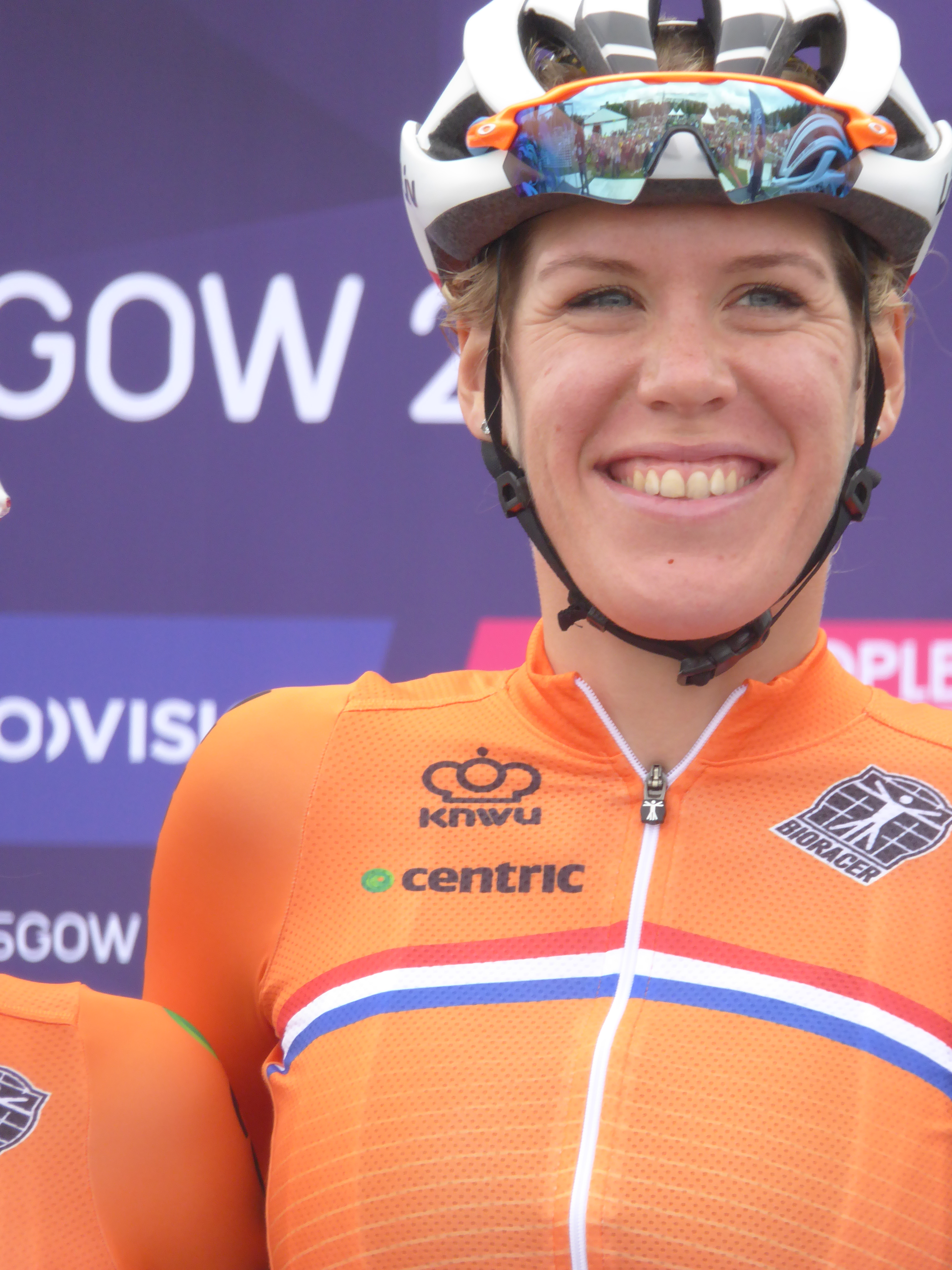 Ellen van Dijk (Netherlands), prior to the women's road race at the 2018 UEC European Road Cycling Championships in Glasgow.